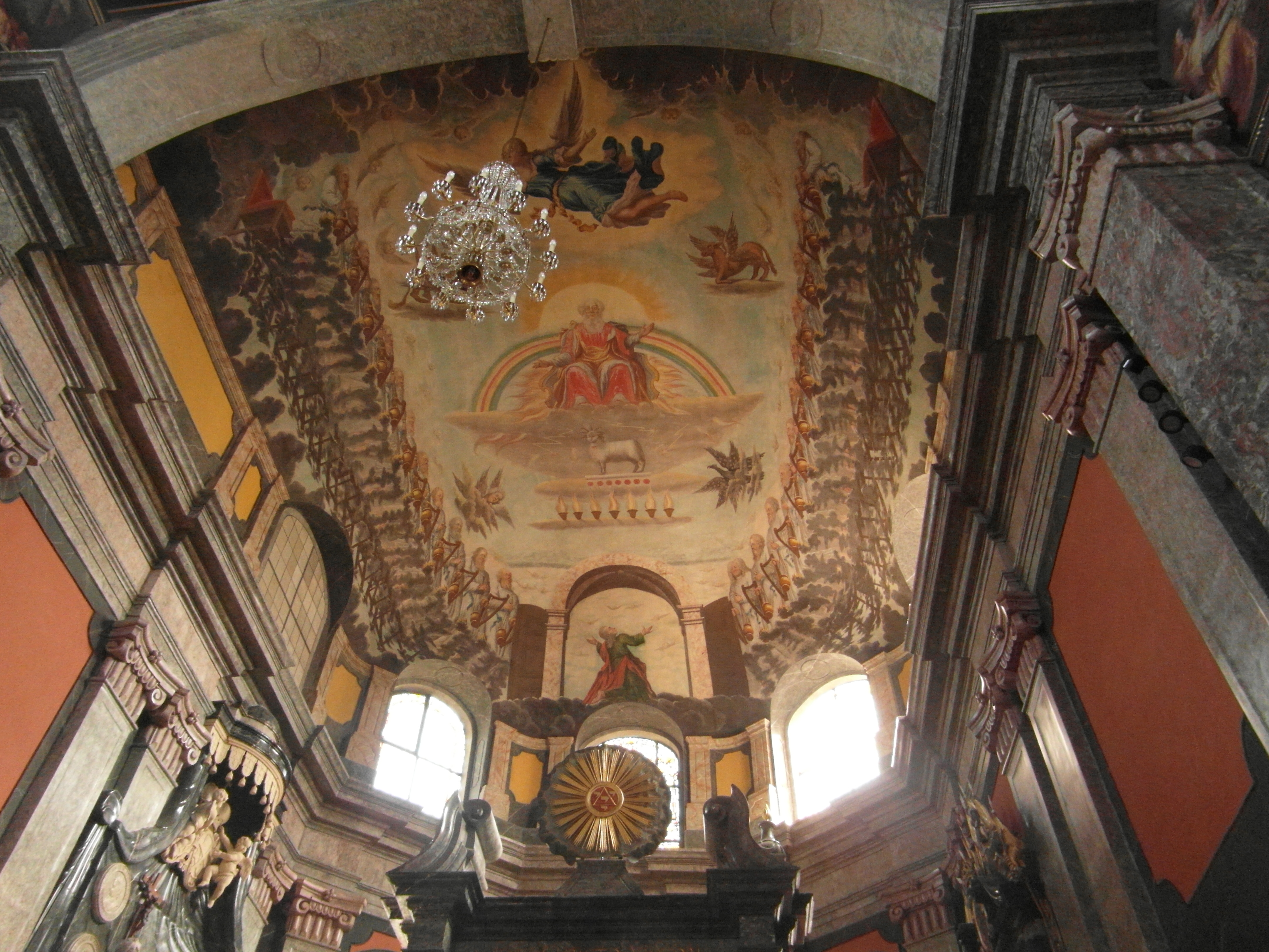 Unionskirche Idstein, Hesse, Germany, ceiling above the altar after restoration, scenes from the Book of Revelation 2017